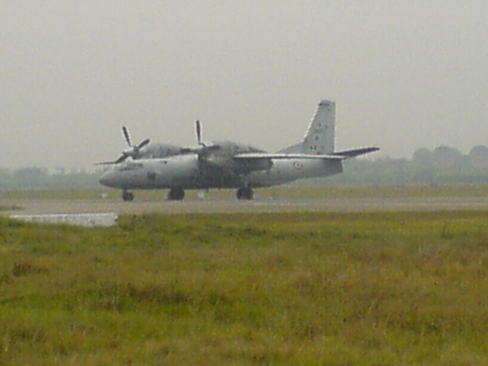 first land of cargo plane in bihta airforce station